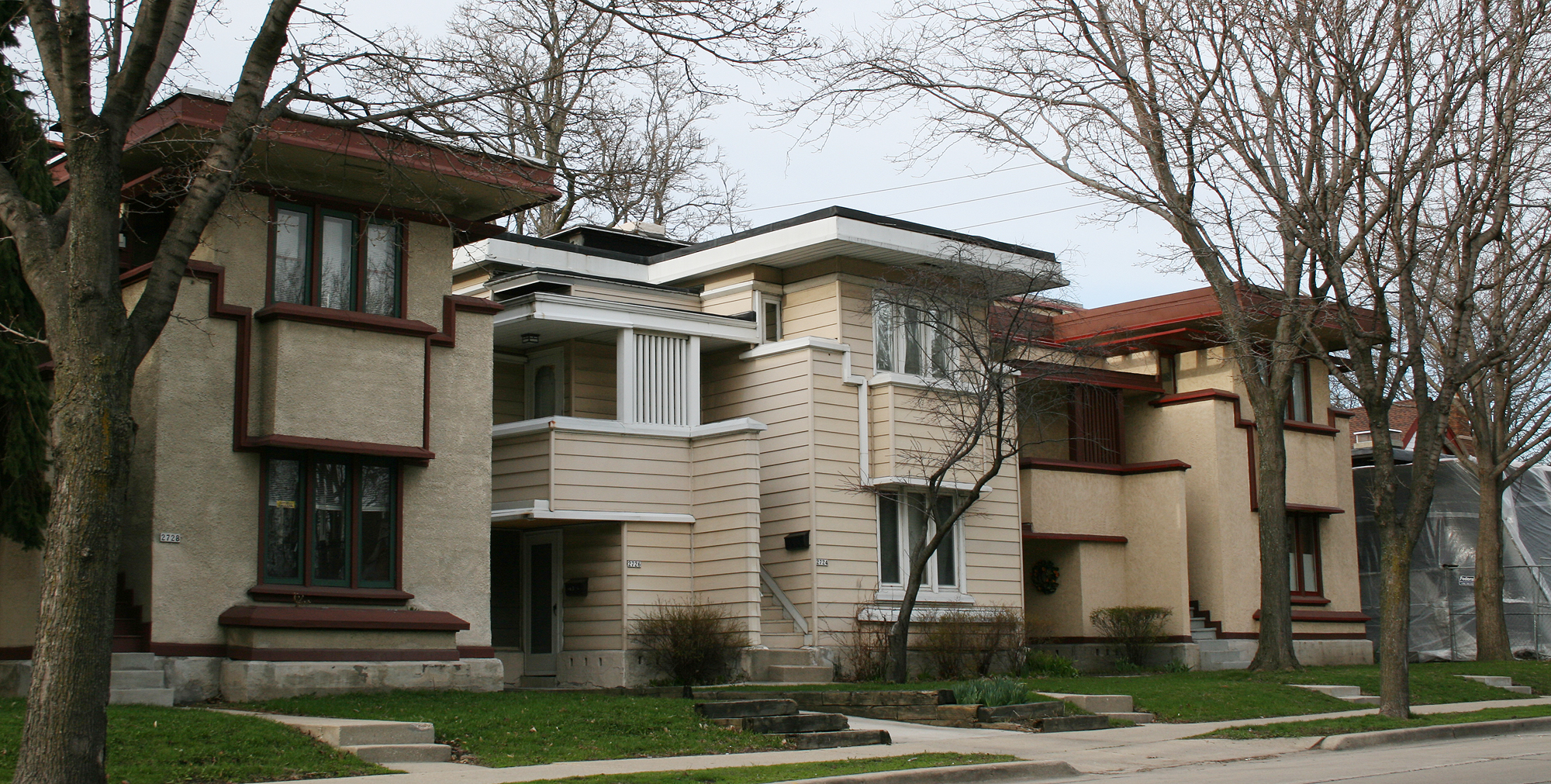 The American System-Built Homes, Burnham Street District, Milwaukee. NRHP, designed by Frank Lloyd Wright. Taken on April 24, 2009. The picture shows three of the four model F duplexes, with the model B1 bungalow (on the far right) undergoing renovation, and covered by plastic. Attribute to Kevin S. Hansen.